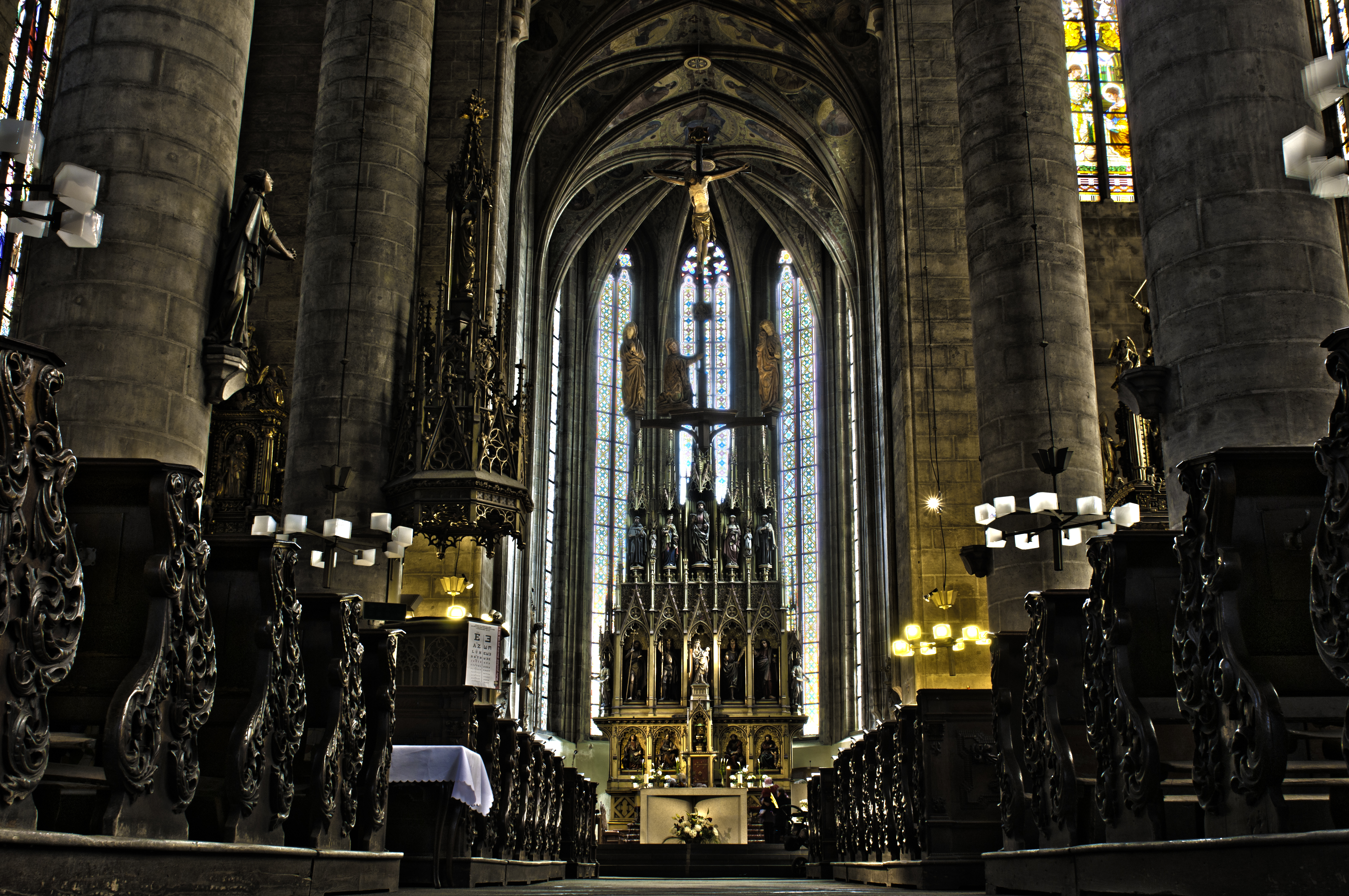 Interior